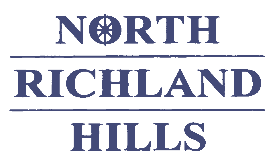 Flag of North Richland Hills, Texas